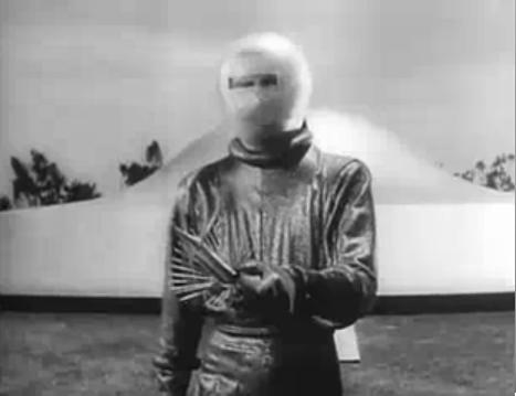 The Day the Earth Stood Still is a 1951 science fiction film about an alien and a robot on a diplomatic mission to Earth.This image is a screenshot from a public domain trailer for the film. Trailers for movies released before 1964 are in the Public Domain because they were never separately copyrighted.